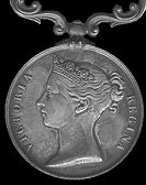 The Baltic Medal 1856 obverse